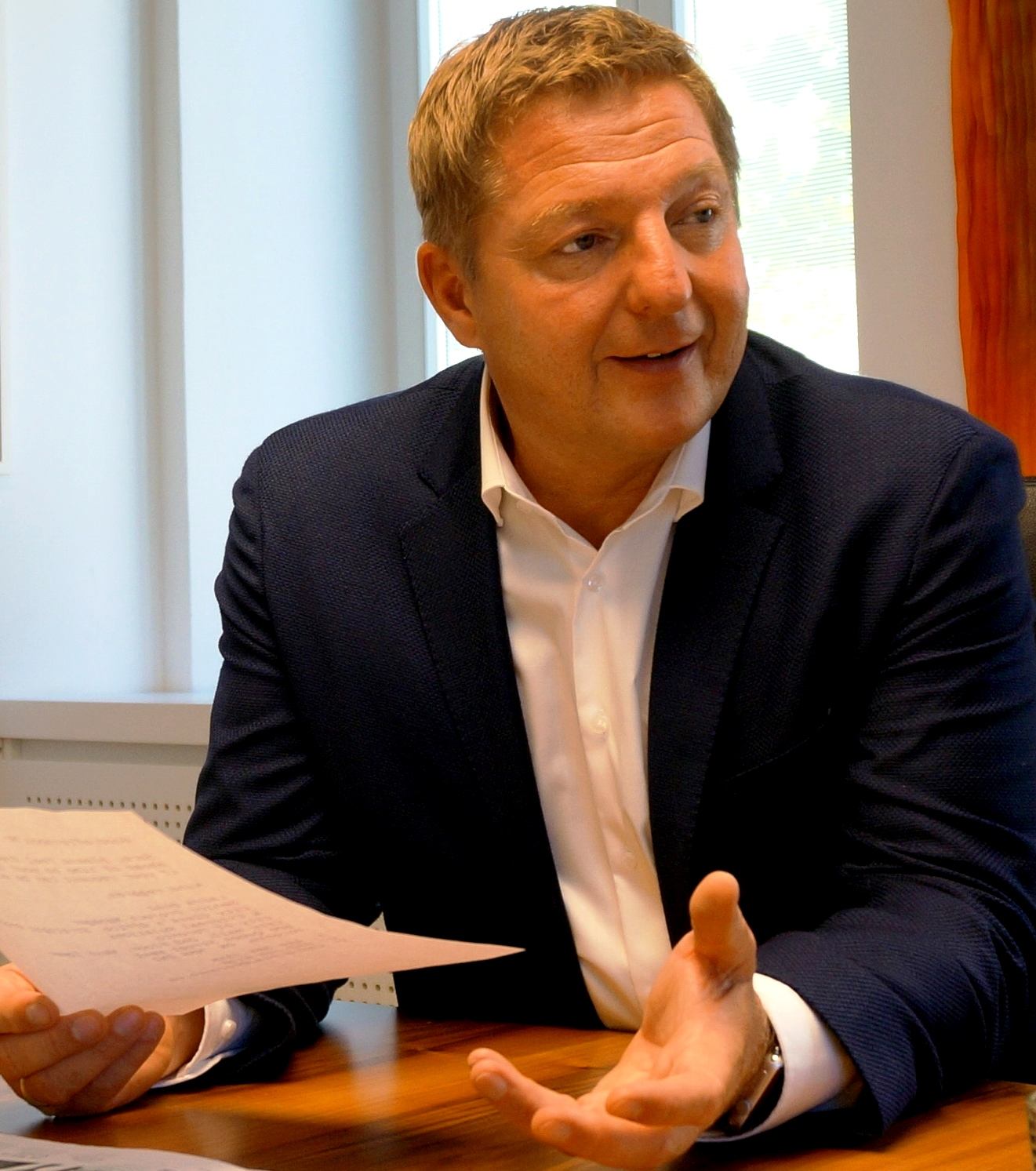 Albel Günther, mayor of the city of Villach, Carinthia, Austria, European Union